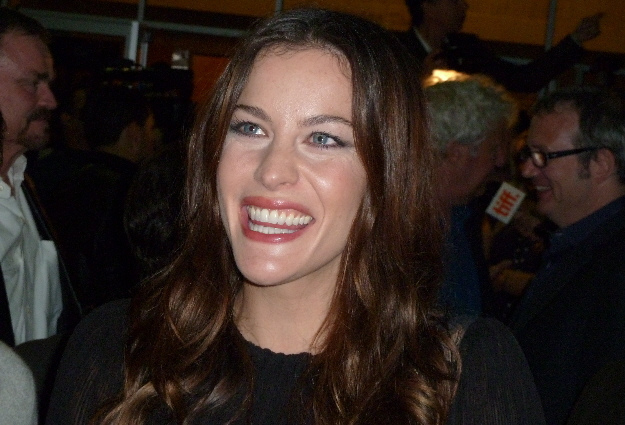 Liv Tyler at the premiere of The Super, Toronto Film Festival 2010.